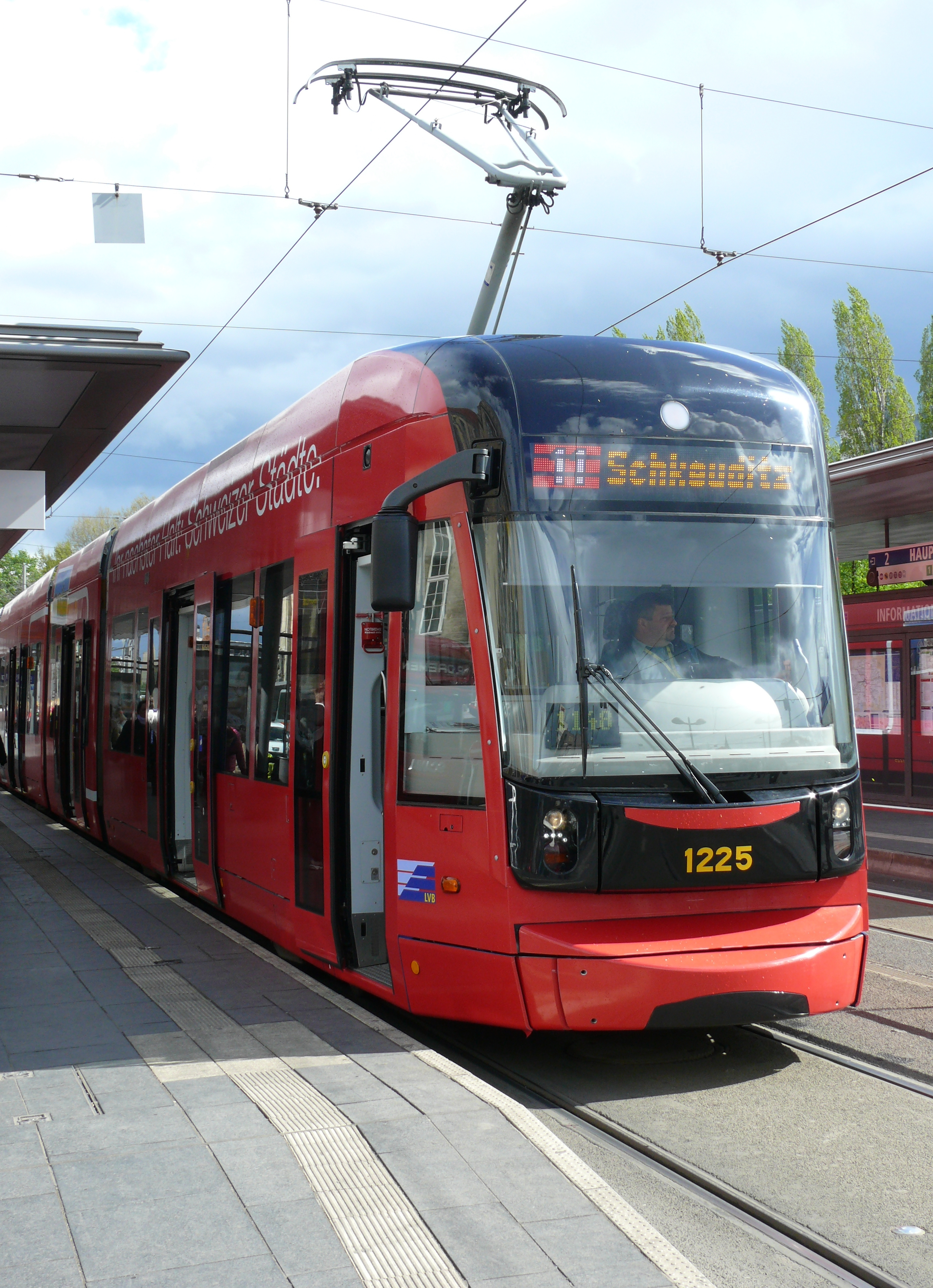 Leipziger Verkehrsbetriebe tram Bombardier NGT12-LEI 1225 (serial 826/025, built 2011) on route 11 to Schkeuditz